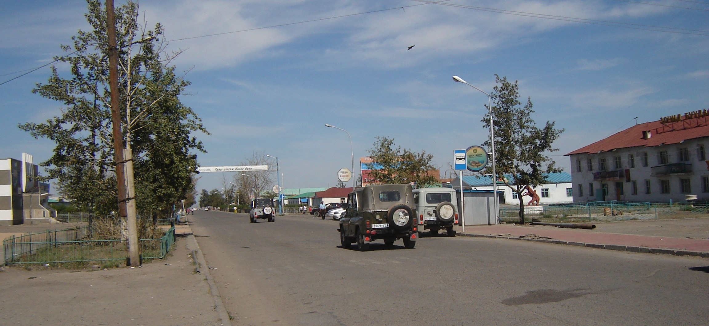 The main street running through Ulaangom, capital of Uvs Aimag